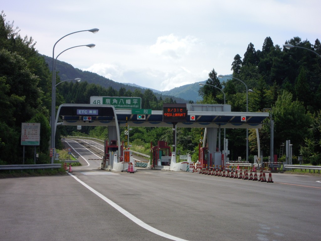 This Interchange, Kaduno-Hachimantai Interchange, is on Tohoku Expressway, in Kaduno City, Akita Prefecture, Japan.